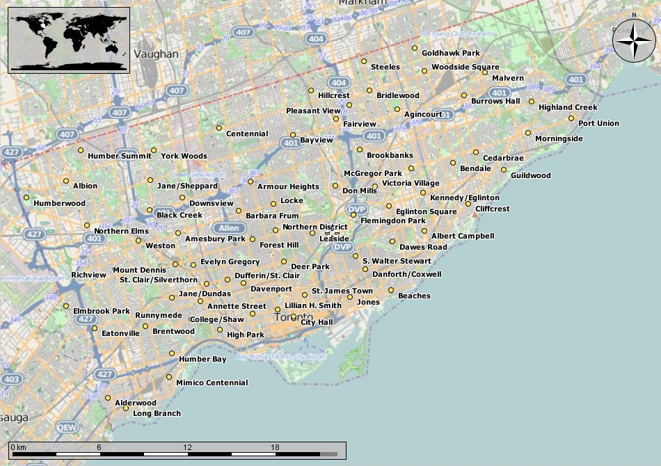 Another mashup, created loading a KML file released by the City of Toronto under the open data license ( Open Street Map of the city used as a background, loaded into the Marble program.